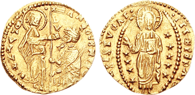 Italia, Venezia. doge Antonio Venier. 1382-1400. AV Zecchino (Ducato) (3.51 g, 11h). zecca Mediterraneano orientale. S N VENEI sin, E (E retrogrado) VX ANIO VENERO dx., San Marco stante dx., che offre stendardo al Doge inginocchiato. Cravatta (?) a forma di Ω sul mento. •IT T +PE DLT Q [TV REG]IS IST VCAT•, Cristo stante entro corona di nove stelle e cornice ellittica. Italy, Venice. Antonio Venier. 1382-1400. AV Zecchino (Ducato) (3.51 g, 11h). Uncertain eastern Mediterranean mint. S N VENEI left, E (E retrograde) VX ANIO VENERO right, St. Mark standing right, presenting banner to kneeling Doge with distinct W tie at chin •IT T +PE DLT Q [TV REG]IS IST VCAT•, Christ standing facing, raising hand in benediction and holding Gospels, surrounded by elliptical halo containing nine stars. Cf. Ives pp. 22-24 and pl. XII, 5-6; cf. Papadopoli 3; cf. Paolucci 1; cf. Friedberg 2c (Chios).